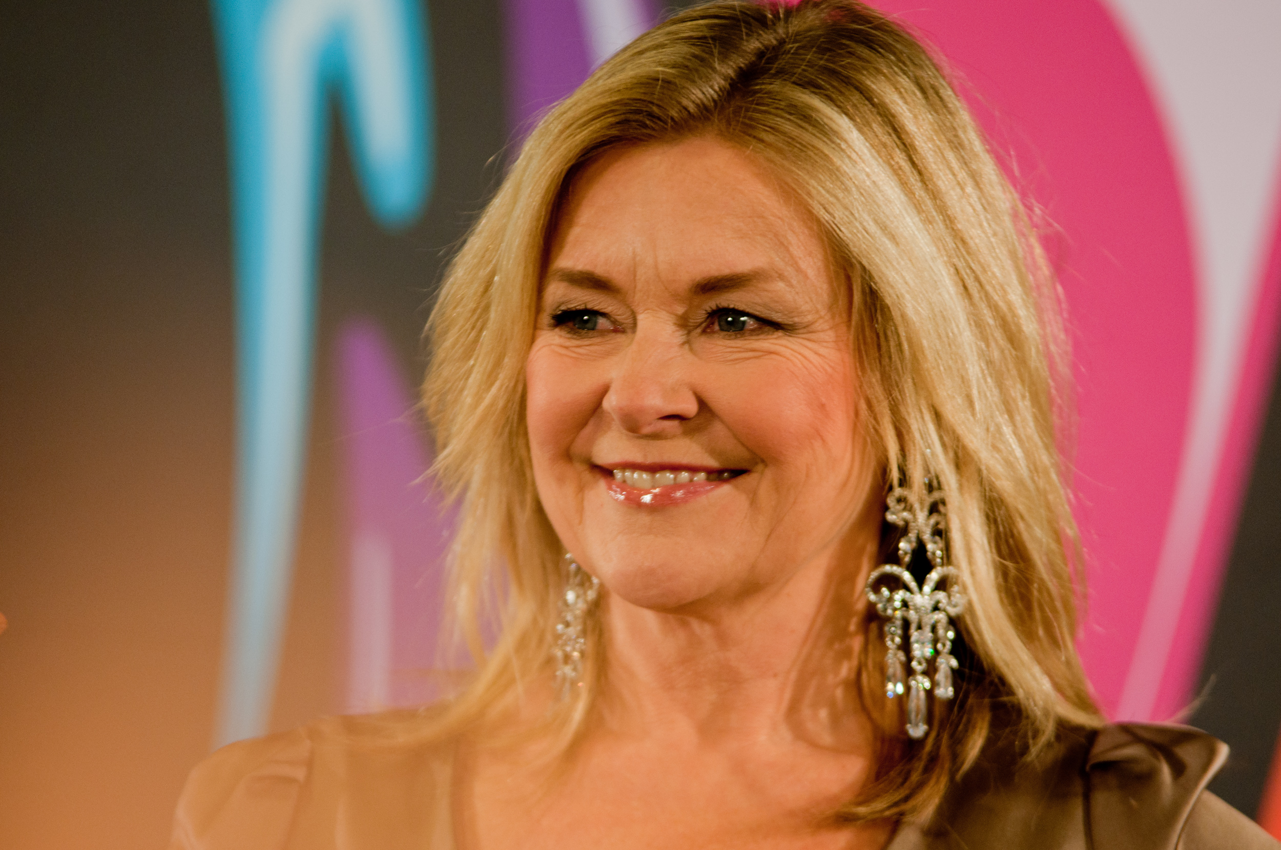 Elisabeth Andreassen 2010 at a press conference for Melodifestivalen 2011